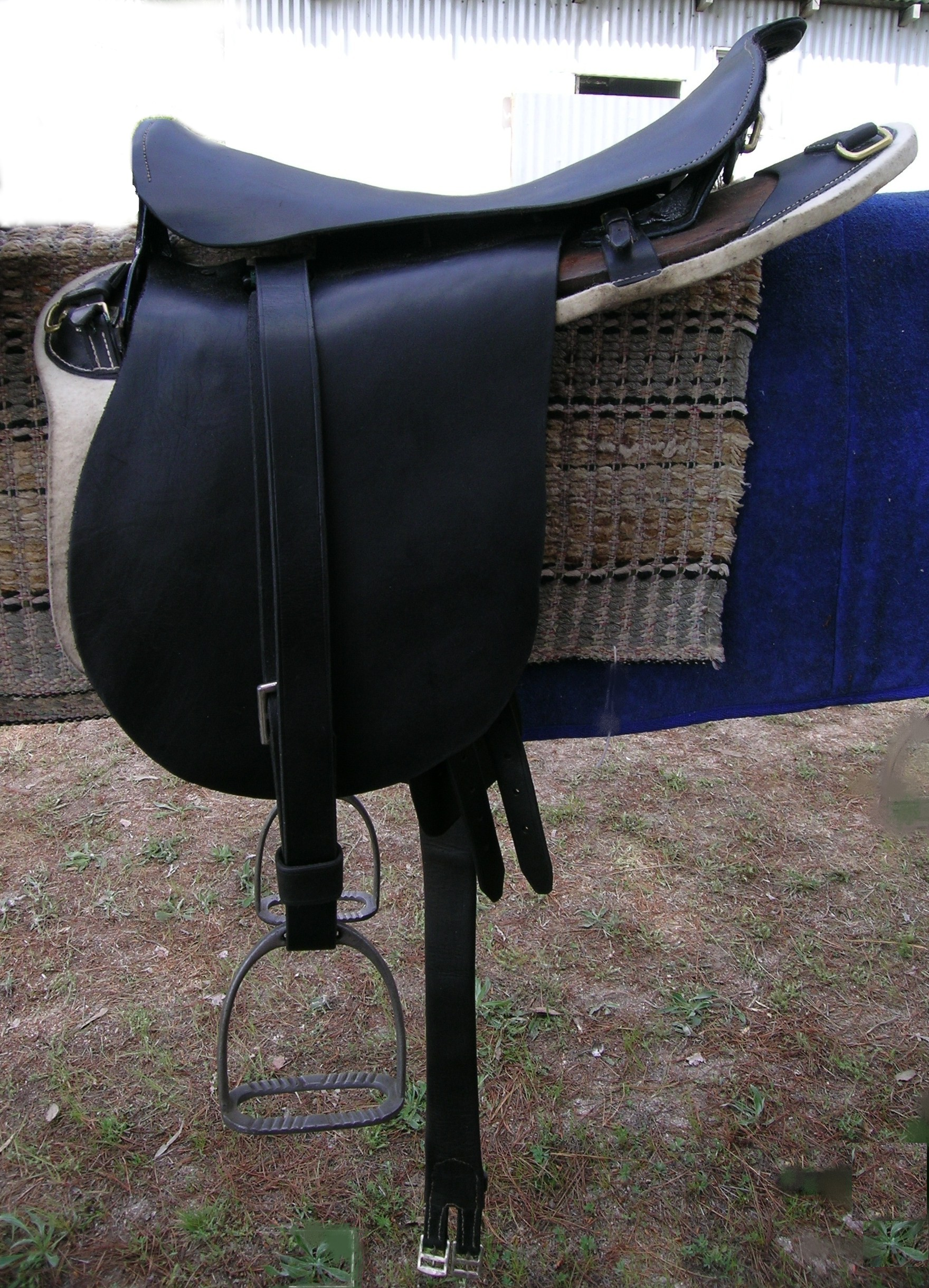 WWI military saddle as used by both the British and the Australian Lighthorse.